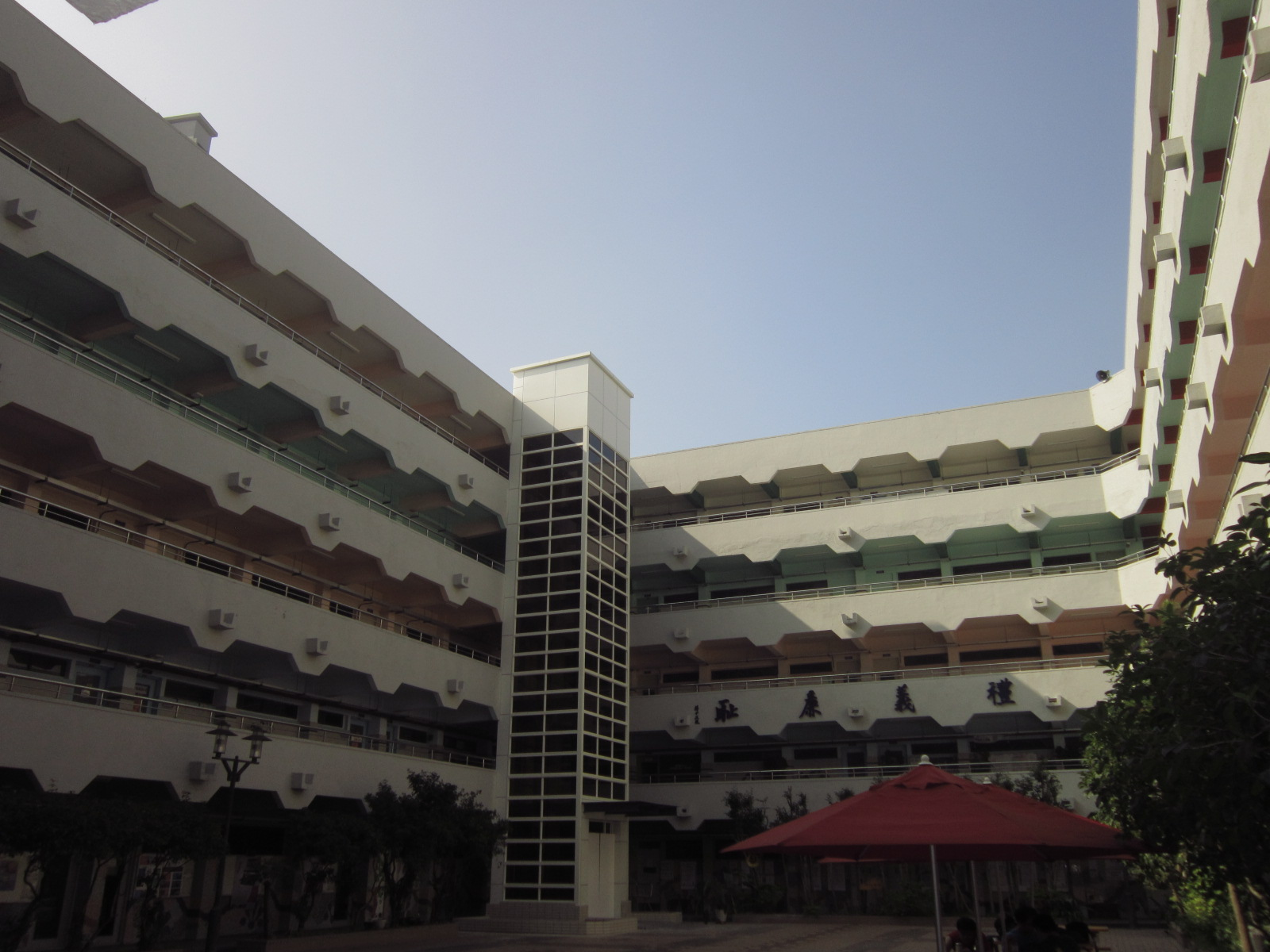 Oriental Institute of Technology